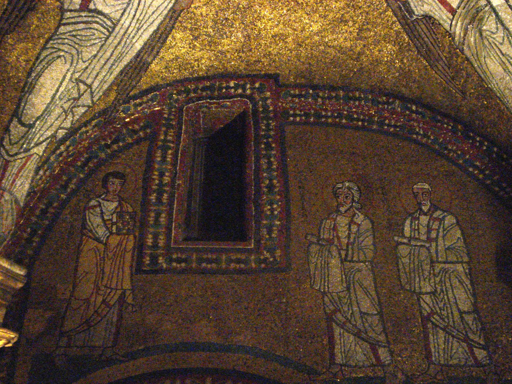 Santa Prassede-St Apostles John, Andrew, James